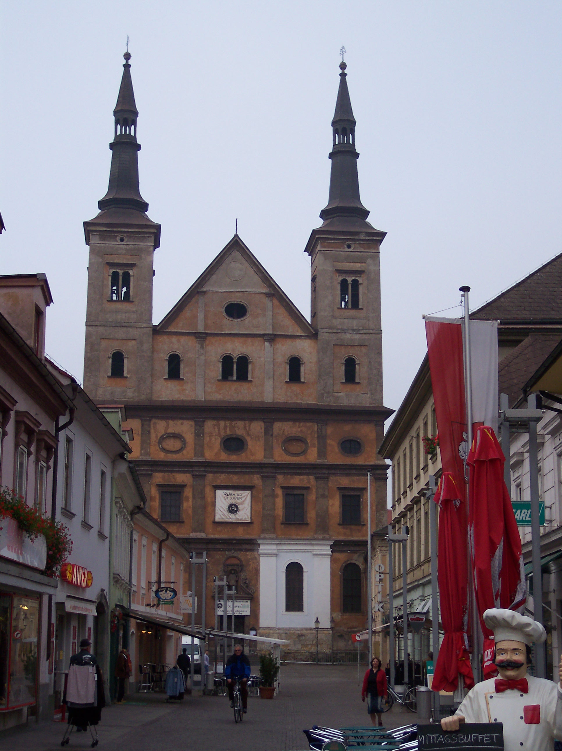 Main church of Holy Xaver (1660-1665) in Leoben.